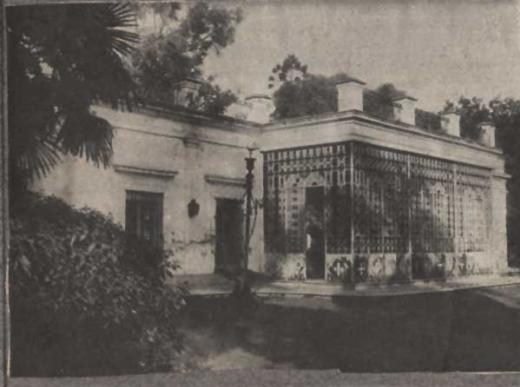 Quinta Lezica. House.